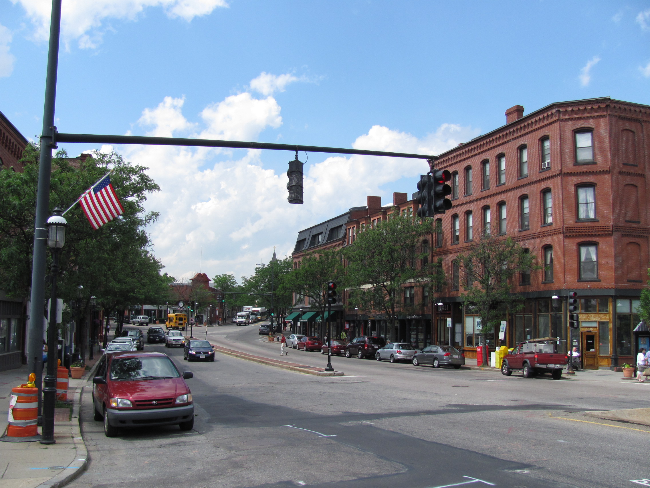 Washington and Harvard Streets, Brookline Village Massachusetts